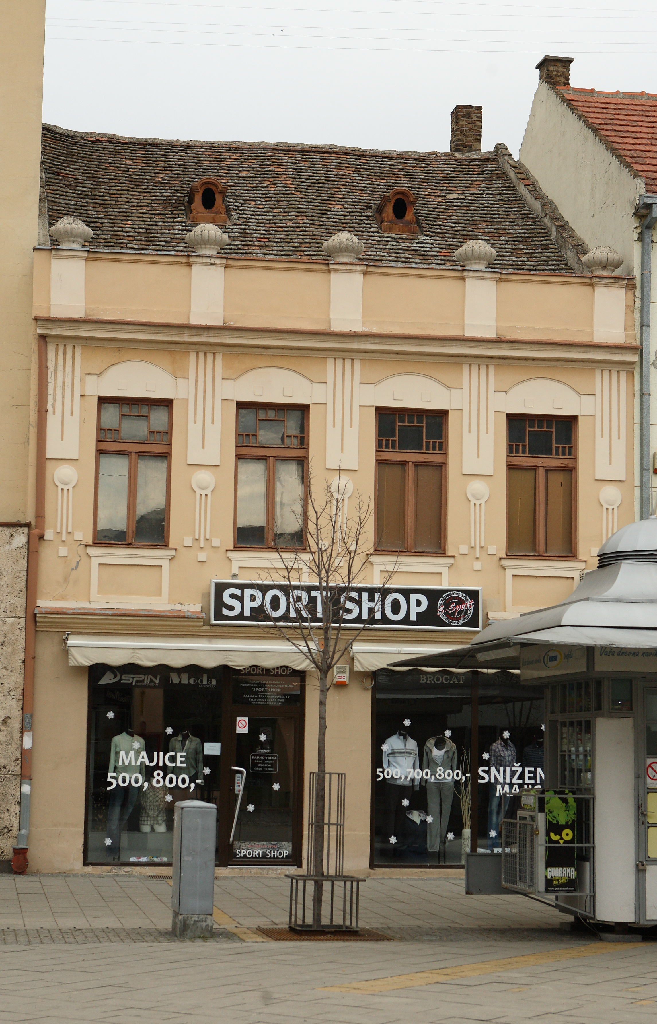 Čeda Udicki building in Zrenjanin